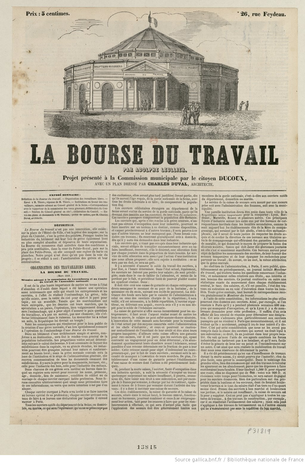 La Bourse du Travail - describes how a Labour Exchange would work